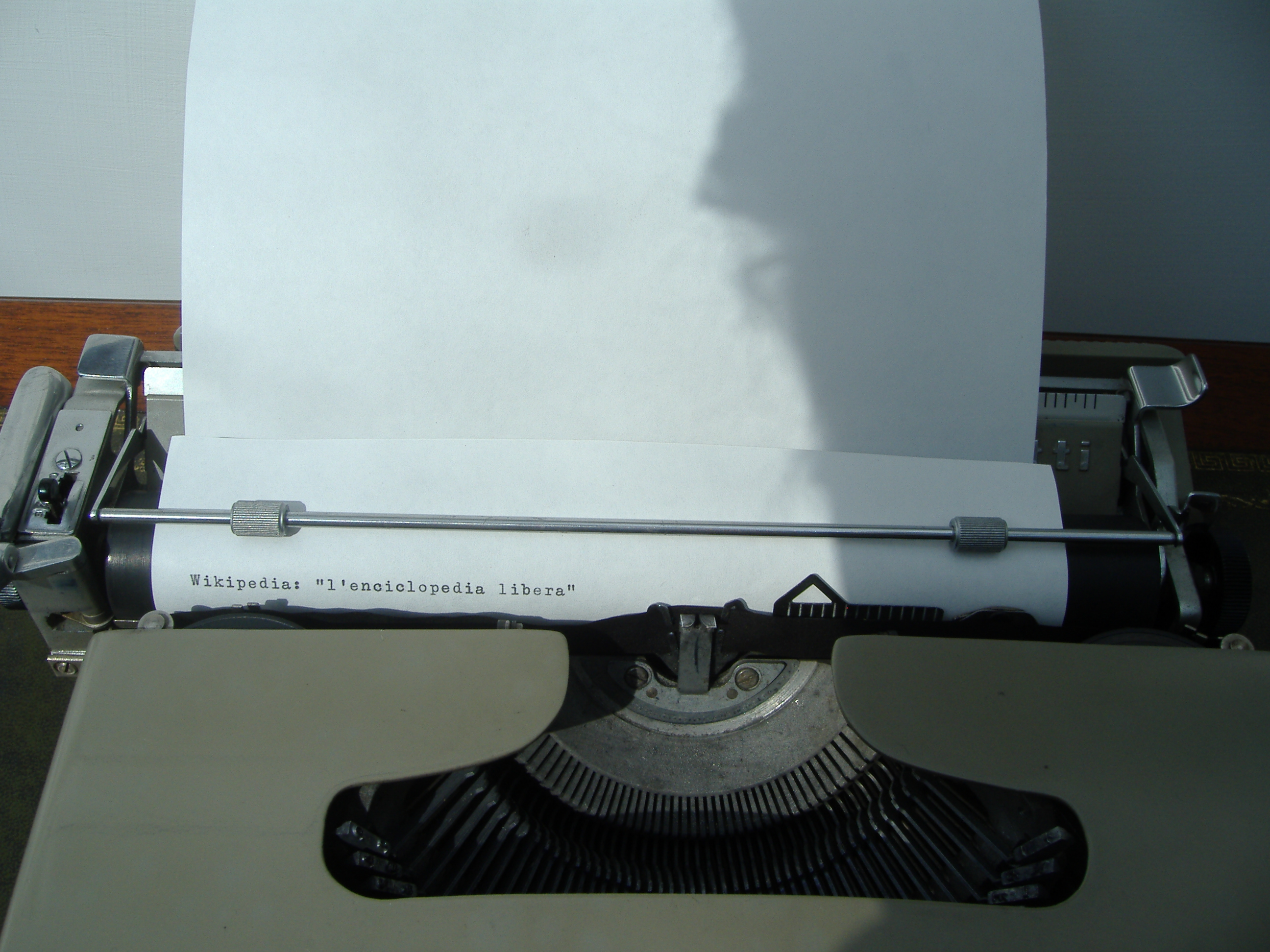 A photo of the Lettera 22